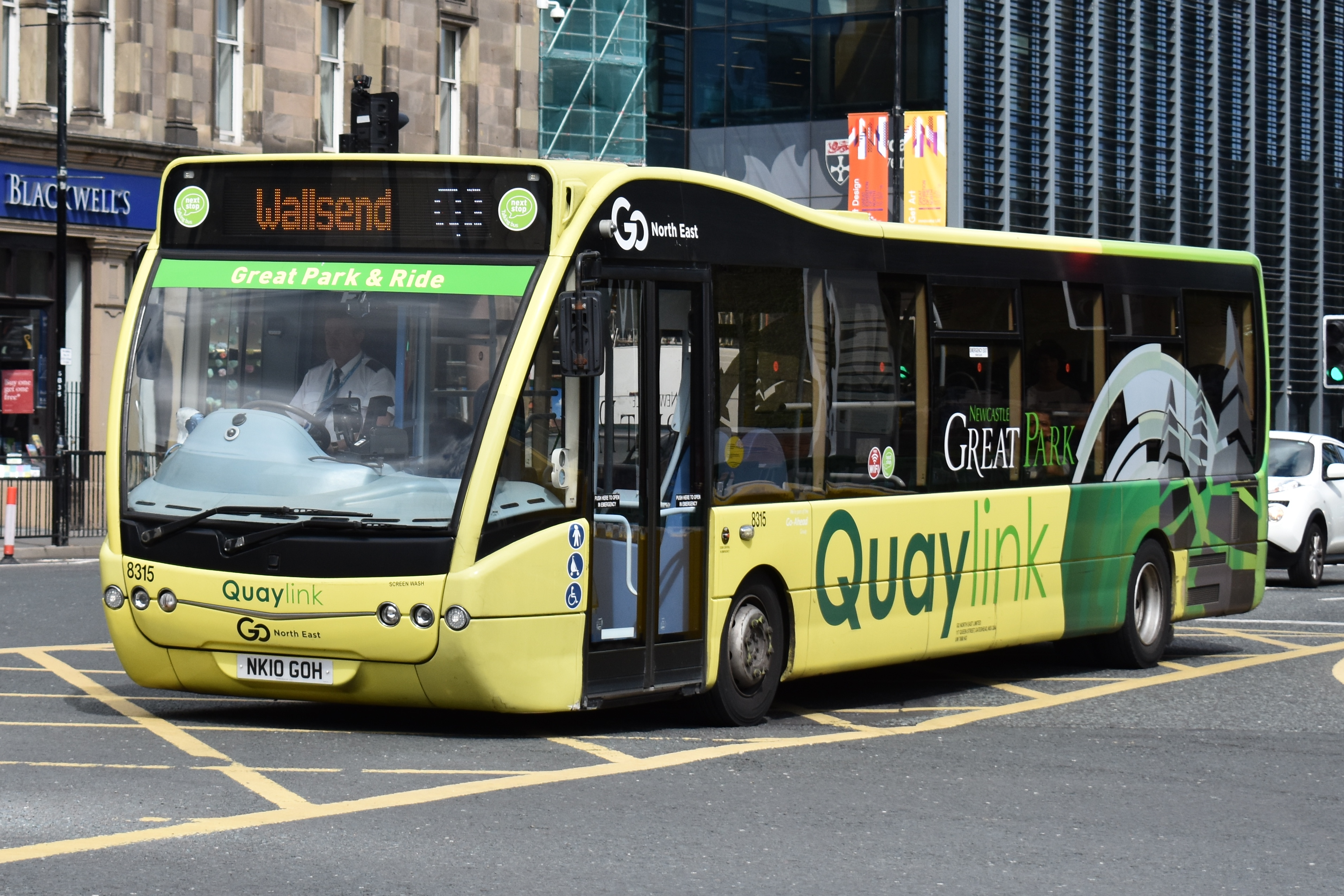 8315, NK10 GOH Optare Versa in Quaylink livery seen passing through Heymarket Newcastle upon Tyne.